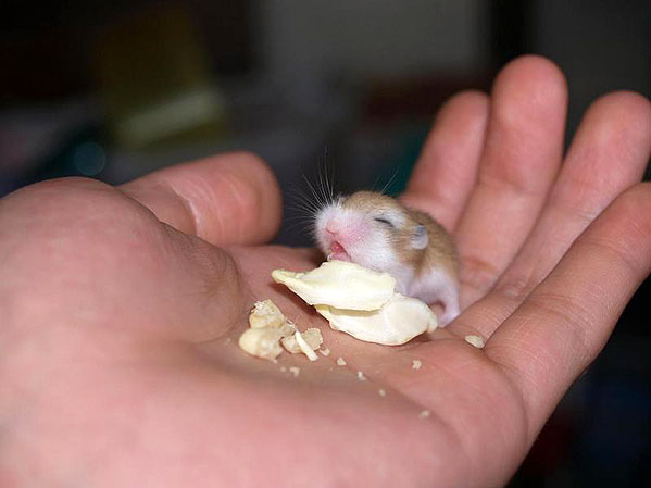 Baby hamster. "Cuteness overload! hm, I want a chippy chip now."